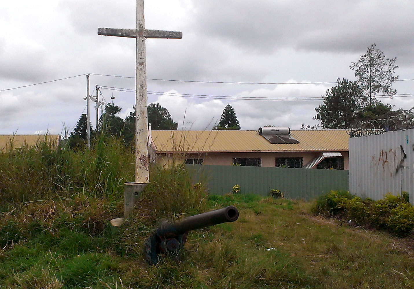 Cross of Remembrance and Japanese canon